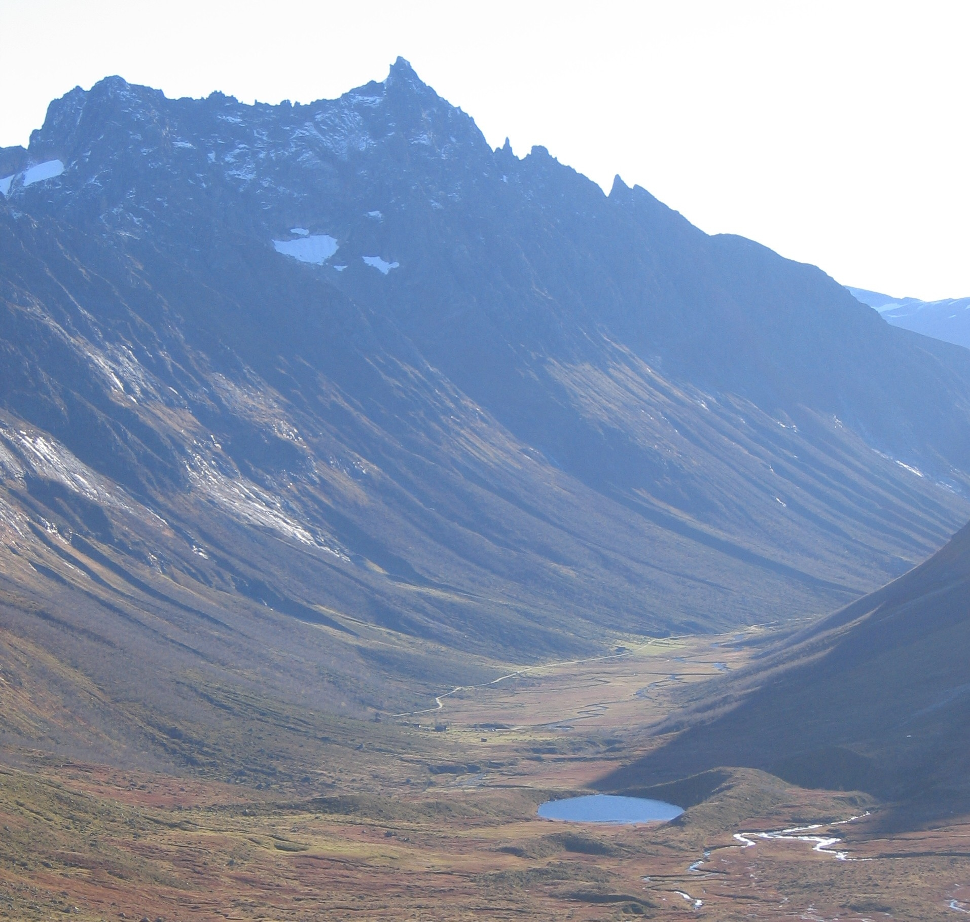 Picture of Kolåstinden and Romedalen , Sunnmør, Ørsta, Norway